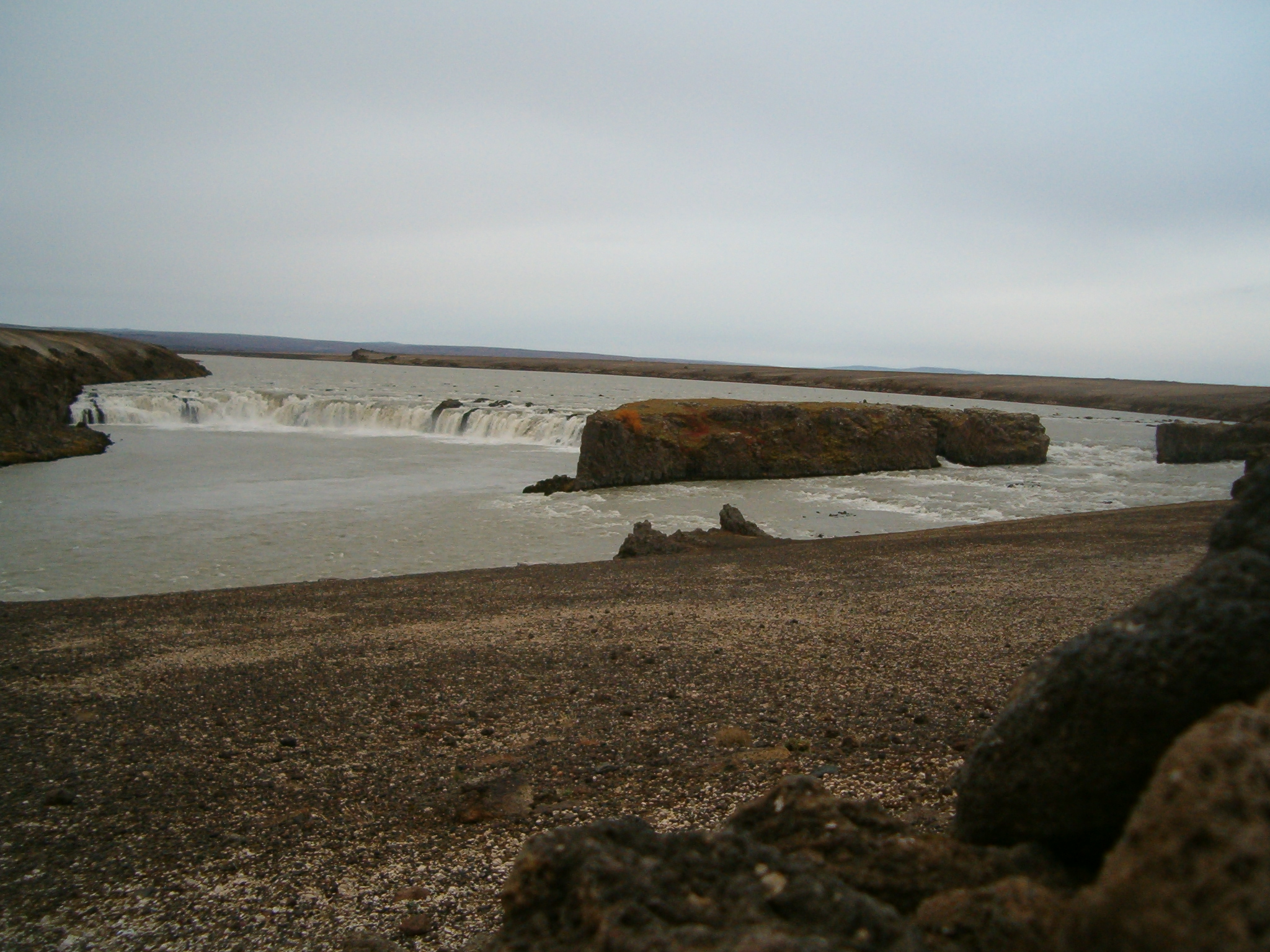 Tröllkonuhlaup, a waterfall in Iceland.